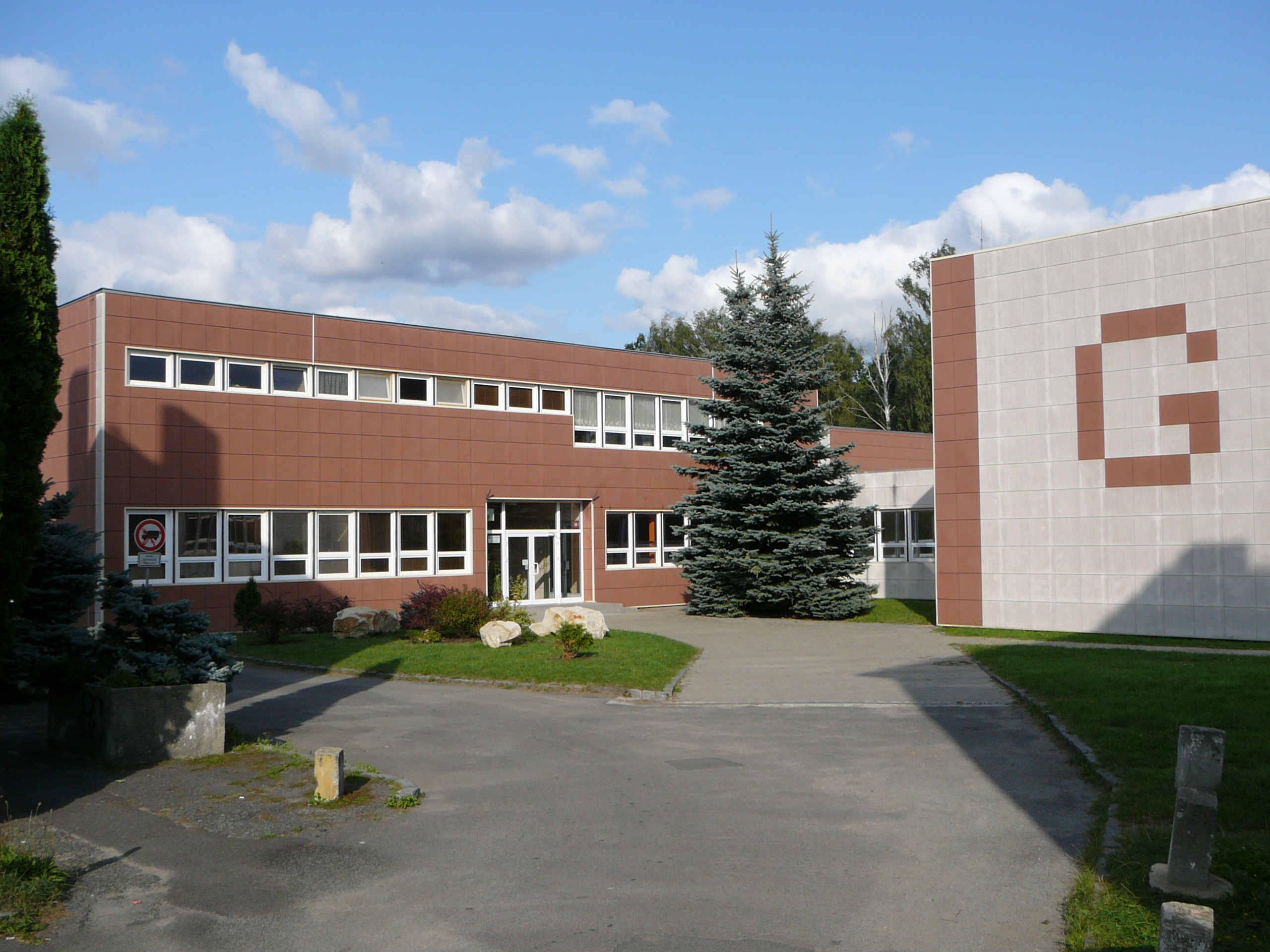 Building of Gymnázium Mimoň, Czech Republic - main entrance.